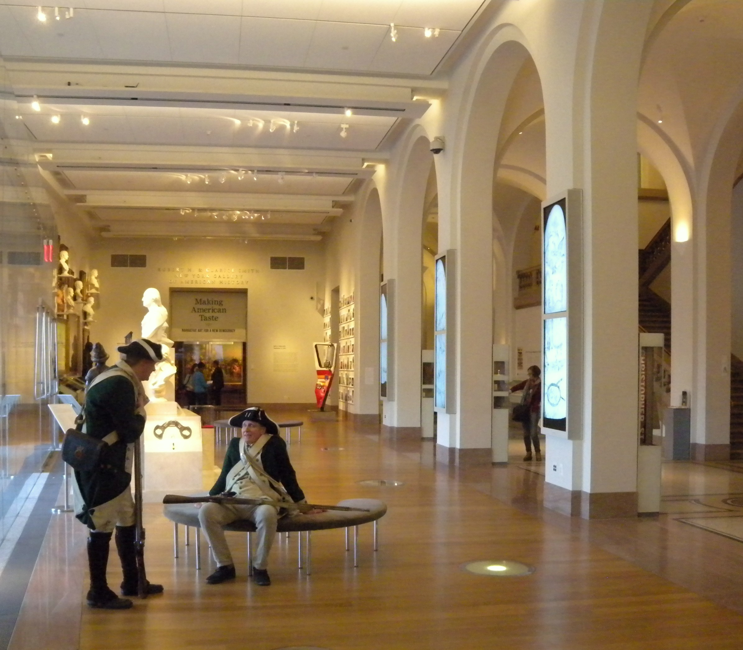 Looking southwest into front hall with Loyalist troops.